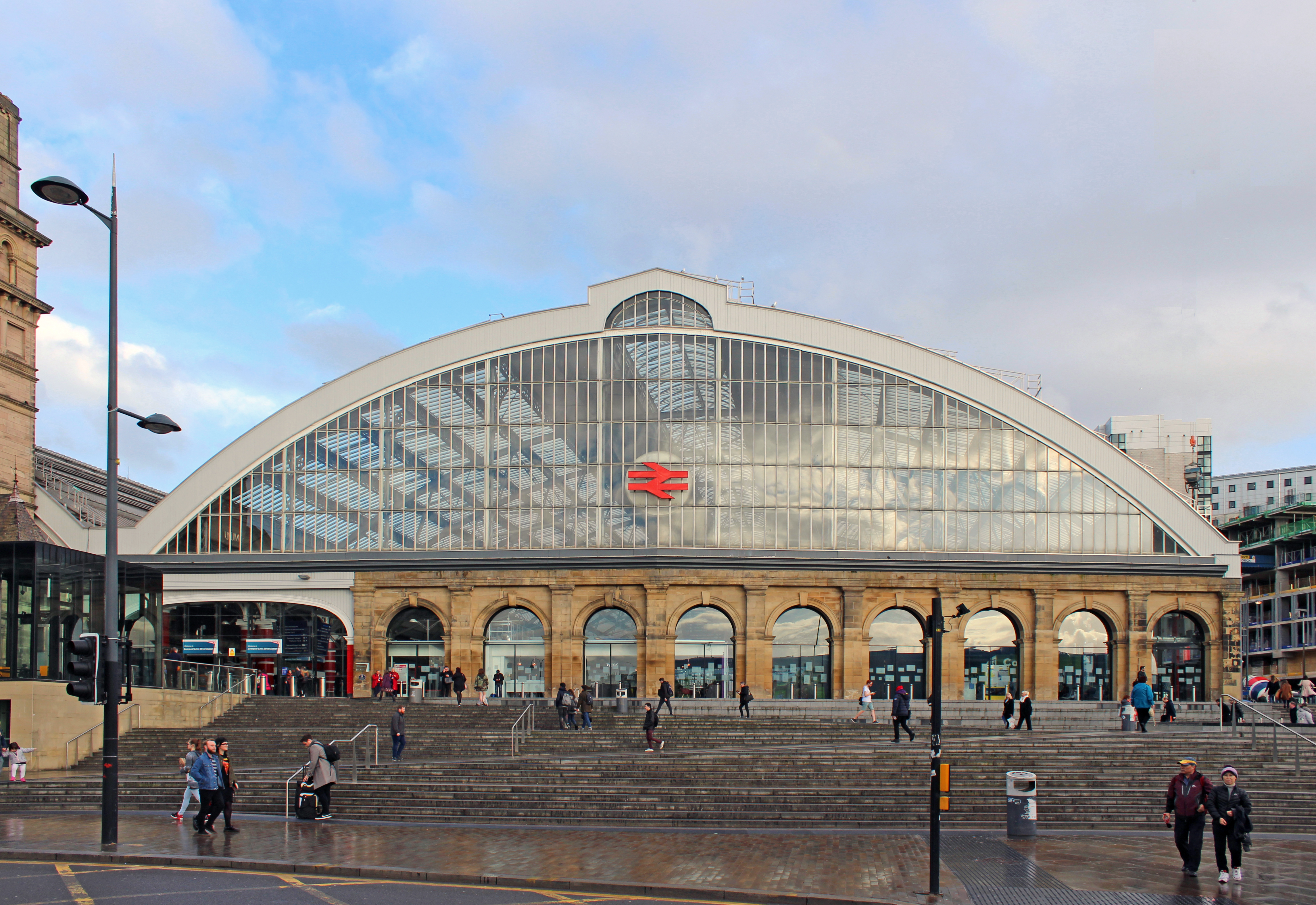 View of Grade II listed Lime Street Station from St George's Place. The concourse was completely rebuilt in 2010, older buildings being demolished to provide a suitable vista of this iconic early railway station.